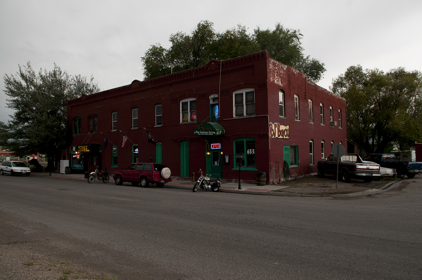 Hotel Patrie, U.S. Route 91 Roberts